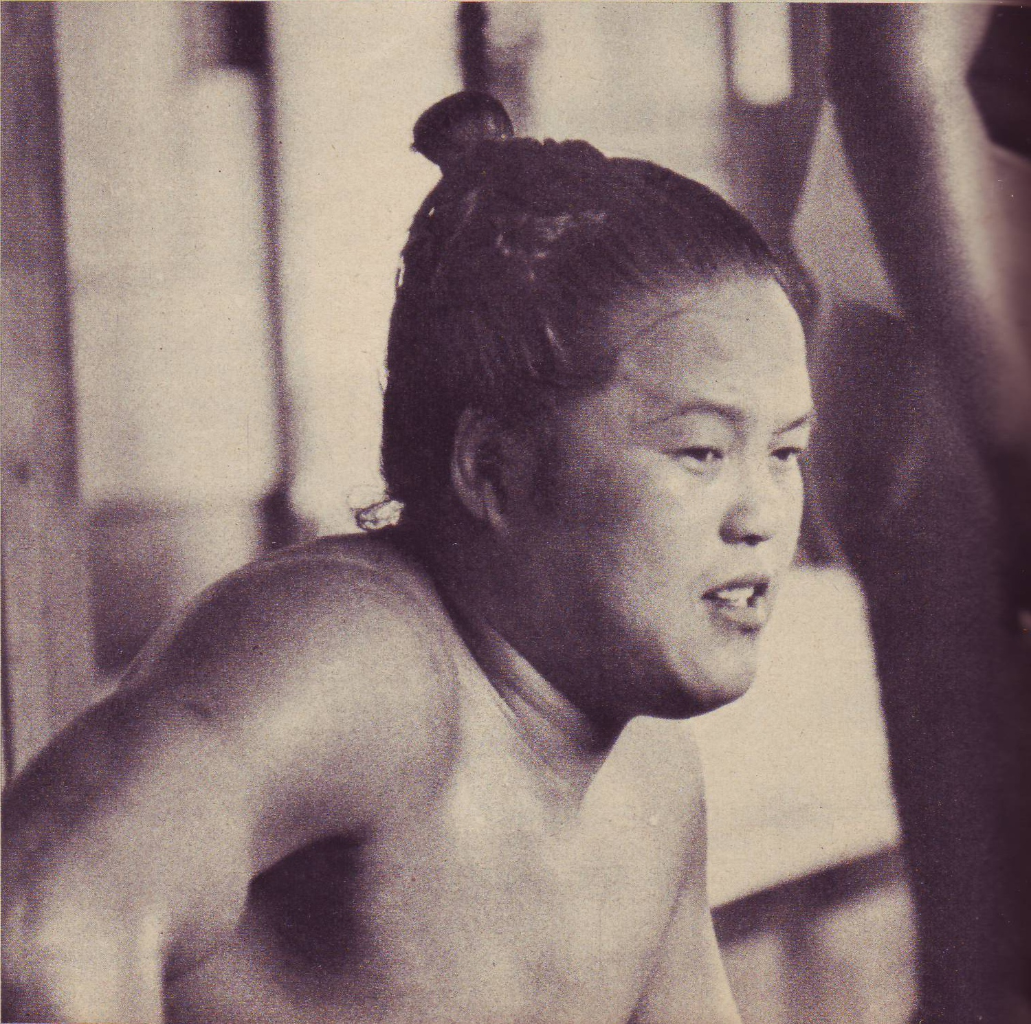 Futatsuryu Tokuyoshi (Sumo wrestler Maegashira. taken in 1959, or before that).